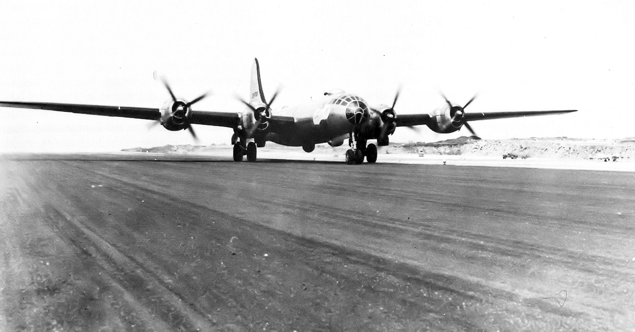 B-29 at Shemya AAF 11 May 1945. Although designed for B-29 operations, none were ever assigned to the base. This B-29 was being tested for cold weather at Ladd AAF and made a landing at Shemya before returning back.